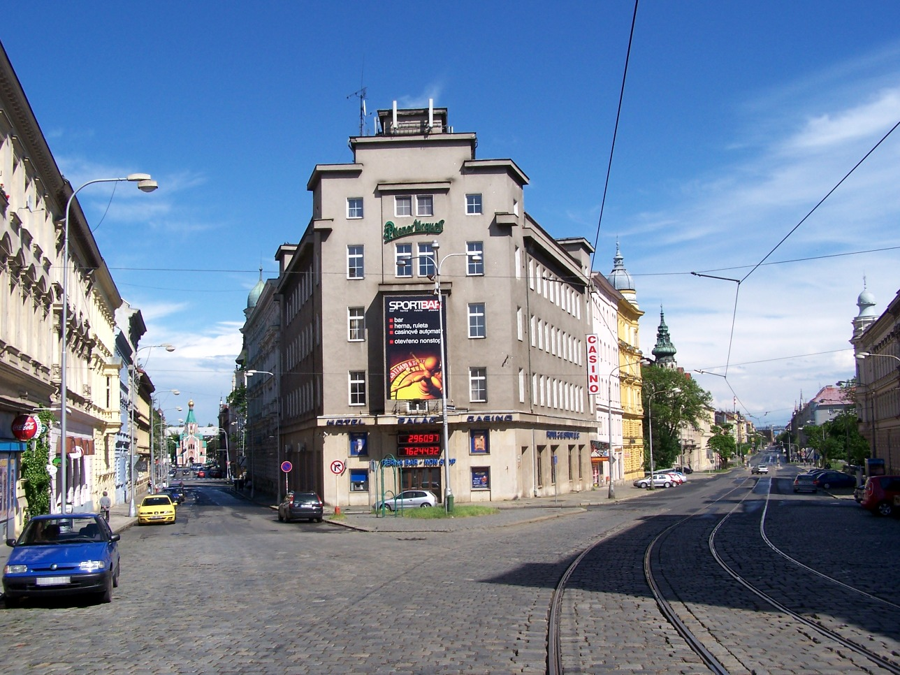 The Palace Hotel, Olomouc, The Czech Republic